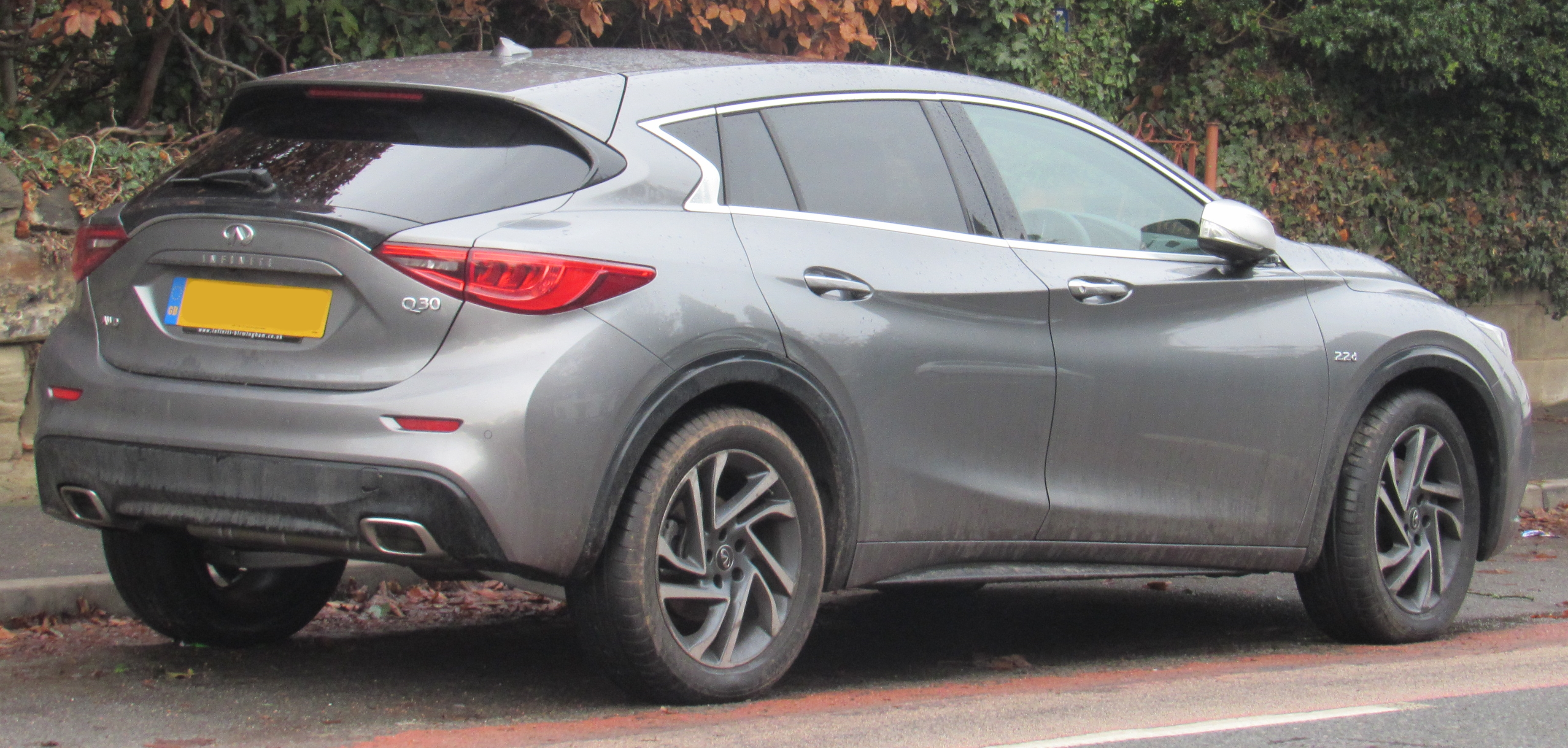 2017 Infiniti Q30 2.1 Rear Taken in Warwick